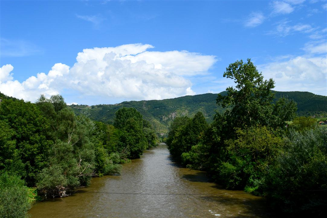 Raska Municipality -Biljanovac